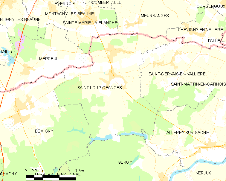 Map of French municipality